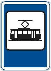 Road sign of the Czech Republic